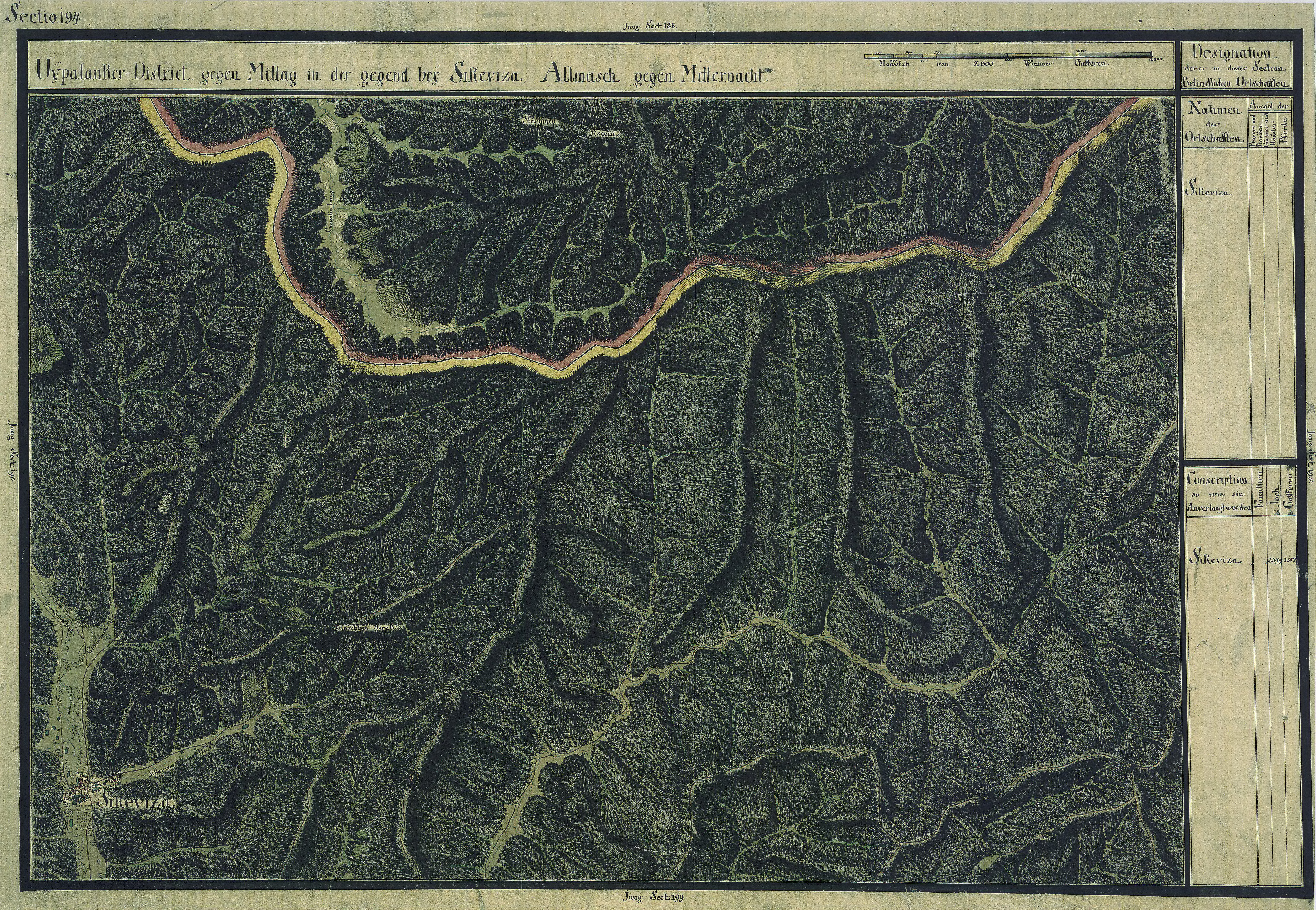 The Banat region in the cadastral maps: Josephinische Landesaufnahme, 1769-72. Josephinische Landaufnahme pg194